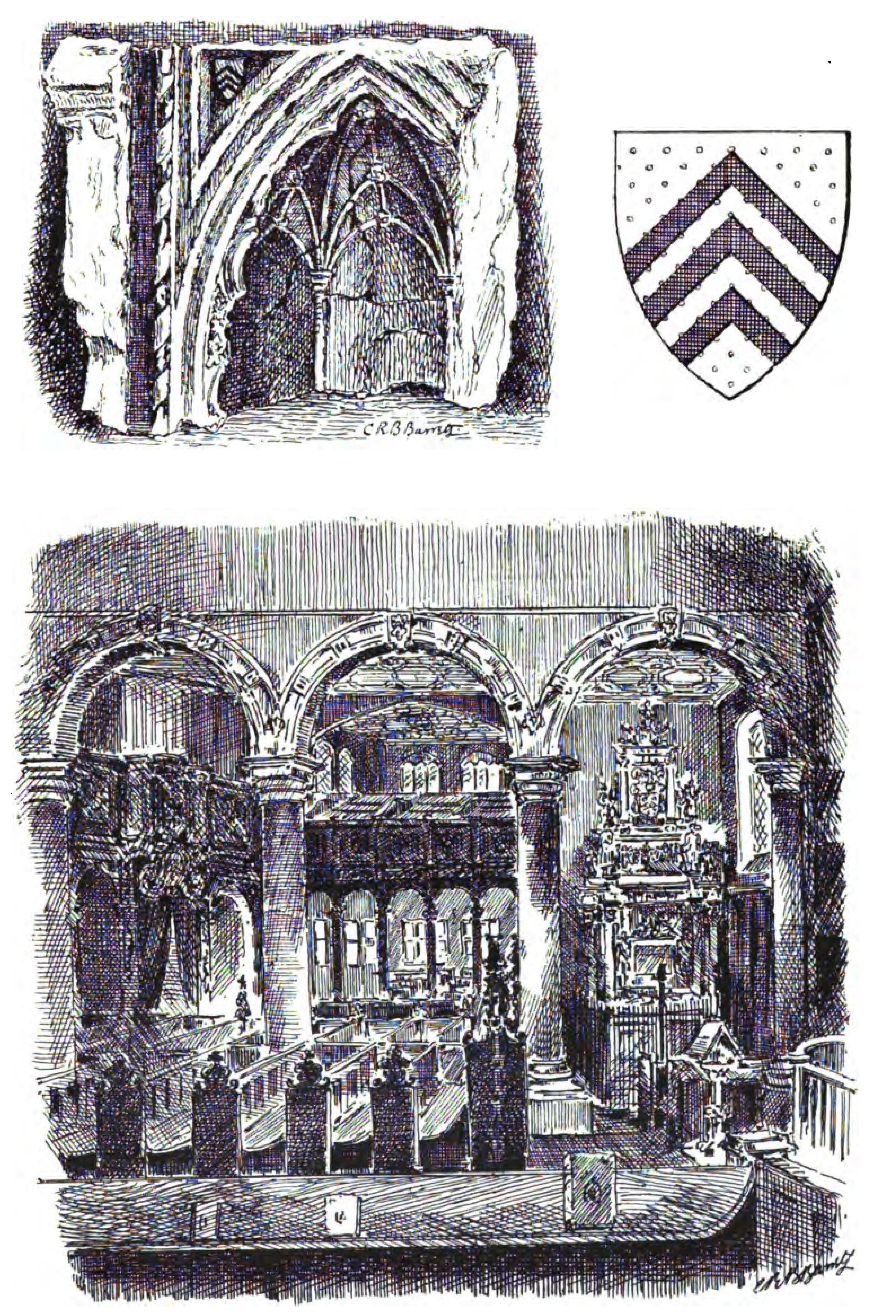 Carving, and interior of Chapel of the London Charterhouse. Pen and ink drawing by Charles Raymond Booth Barrett. "Preserved in the Chapel is a most interesting fragment of the tomb of the founder or co founder of the Carthusian Monastery: Sir Walter de Manny or Mauny. Manny was knighted in 1331, and summoned to Parliament as a Baron in 1345 — his title being Lord de Manny. He died on 15th January, 1372, and was buried in Charterhouse. His arms, as shewn on the carvings, were: Or, three chevronels sable. A bull of Pope Urban VI., dated 1378, mentions Northburgh (Bishop of London) and Manny as co-founders of Charterhouse. The interior of the Chapel is, however , as full of interest as its exterior is devoid of architectural beauty. The carved oak stall-heads, the organ case, the screens, and the various monuments are worthy of close study. But the chief point is the Monument of the founder, Thomas Sutton, in the north-east corner of the north aisle. The curious alms-box in the upper part of the altar rails is of most uncommon type. A ruined aumbrey, behind the panelling on the south side of the altar in the east wall, proves this wall to be of pre-Reformation date."